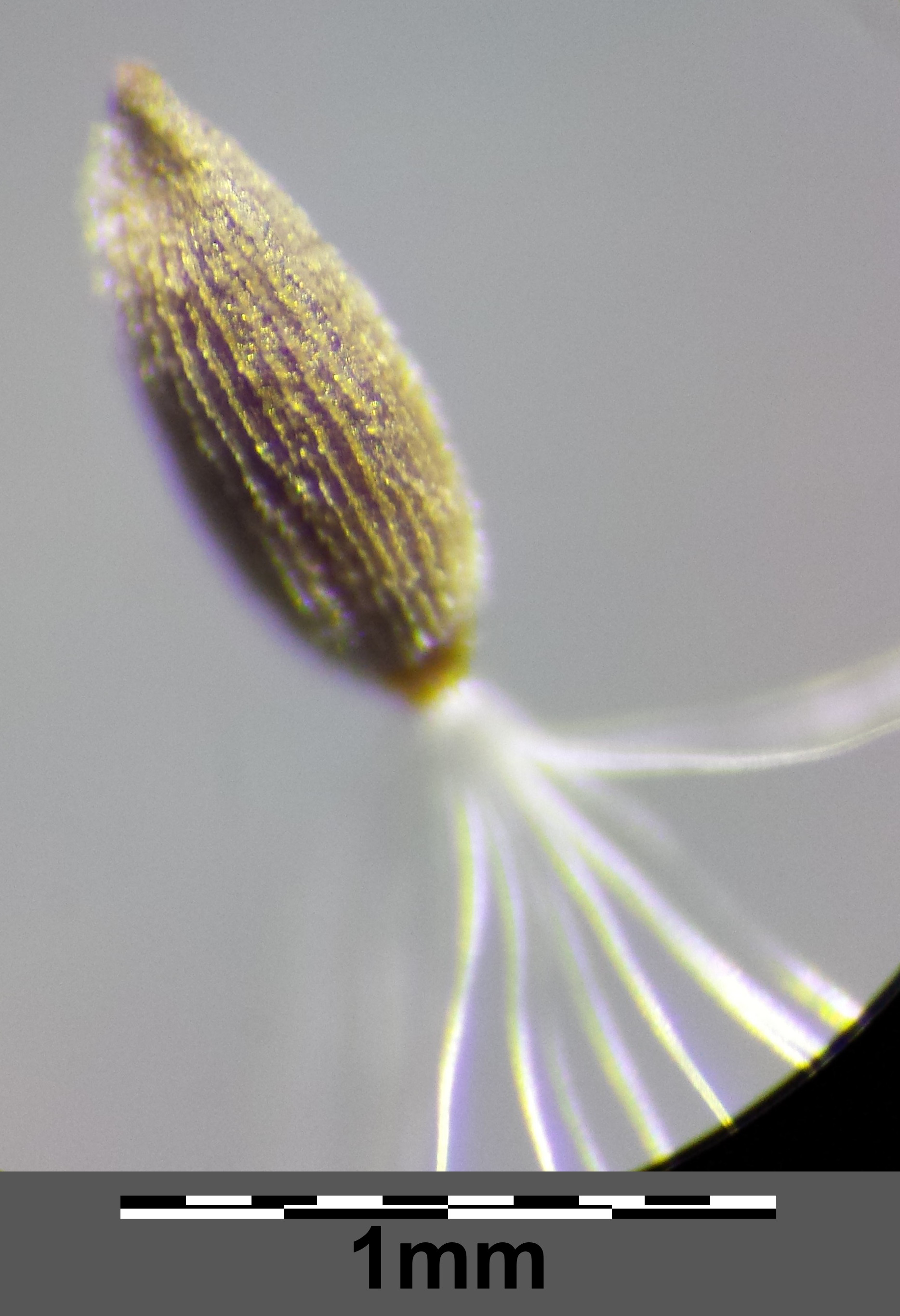 Seed Taxonym: Epilobium ciliatum ss Fischer et al. EfÖLS 2008 ISBN 978-3-85474-187-9 Location: near Arbesbach, Groß-Gerungs, district Zwettl, Lower Austria - ca. 850 m a.s.l. Habitat: brookside